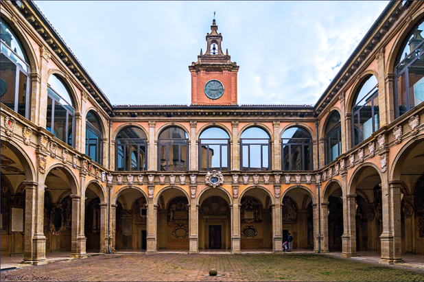 Archiginnasio internal court, Bologna, Italy